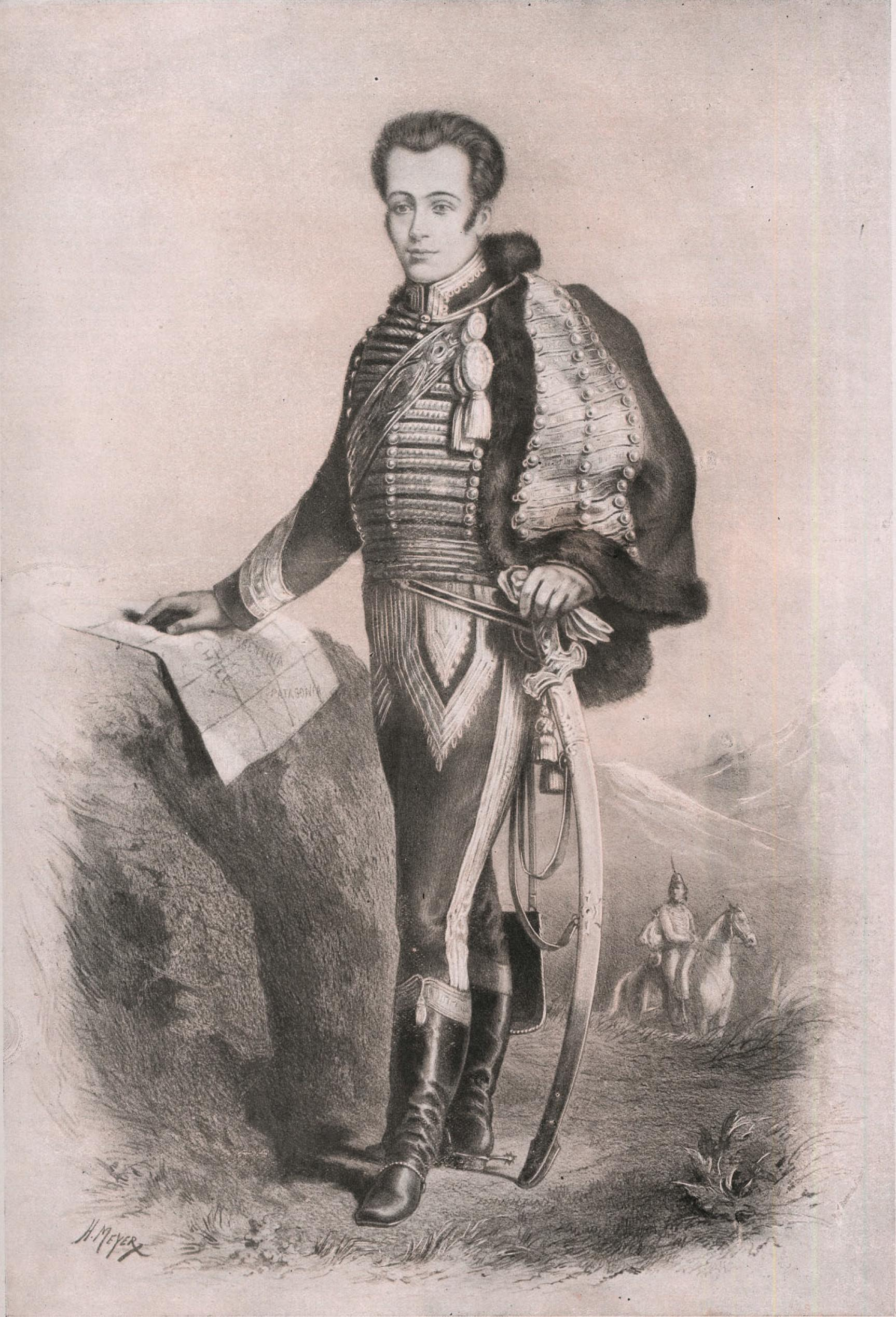 Lithography of chilean General José Miguel Carrera